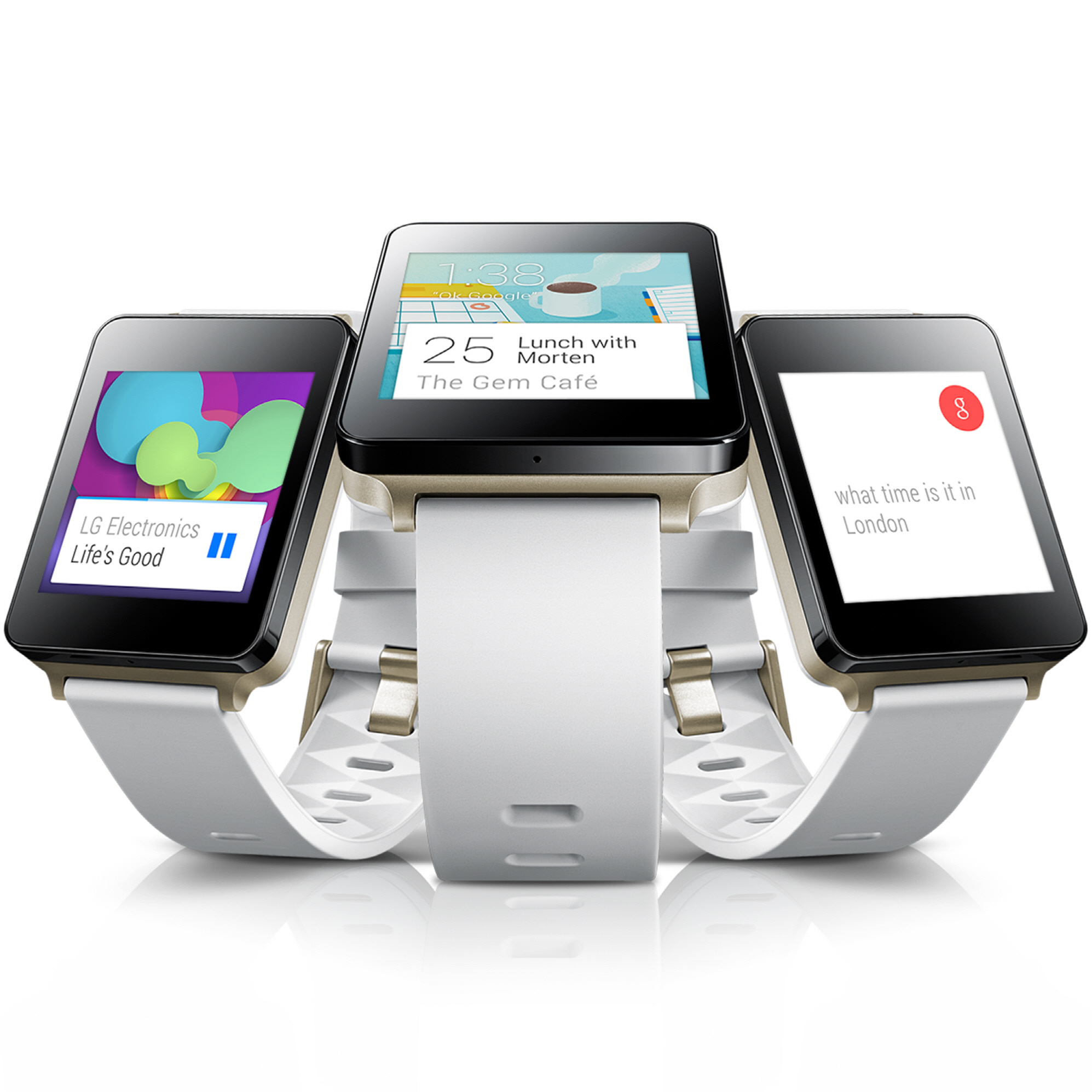 ■ 구글 ‘안드로이드 웨어’ 적용한 첫 스마트워치 ‘LG G워치’ 공개 ■ 안드로이드 기반 스마트폰과 호환되는 뛰어난 연결성 ■ 직관적이고 편리한 UX, 미니멀한 디자인도 강점 ■ 최적화된 하드웨어 탑재 □ 1.65인치 IPS 디스플레이, 1.2GHz 퀄컴 스냅드래곤 400 프로세서, 400mAh 대용량 배터리 등 ■ 사용자 편의성 혁신 □ 음성 인식 기반 ‘구글 나우’, 화면이 꺼지지 않는 ‘올웨이즈 온’, 방수 및 방진 기능, 교체 가능한 스트랩 등 ※ Social LG전자 ( 에서 관련 보도자료를 확인하실 수 있습니다.